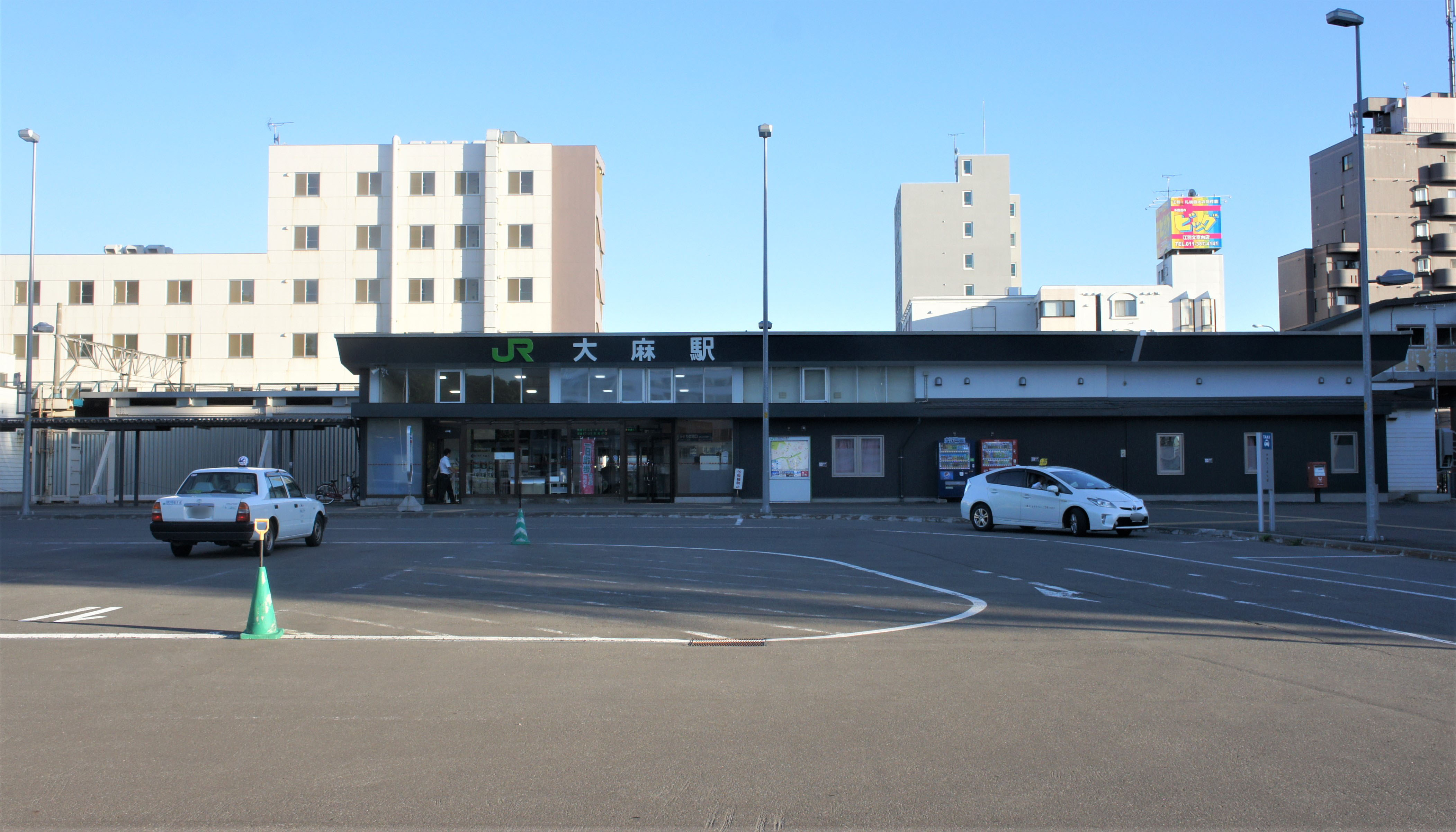 North Exit Station building of JR Hakodate-Main-Line Oasa Station